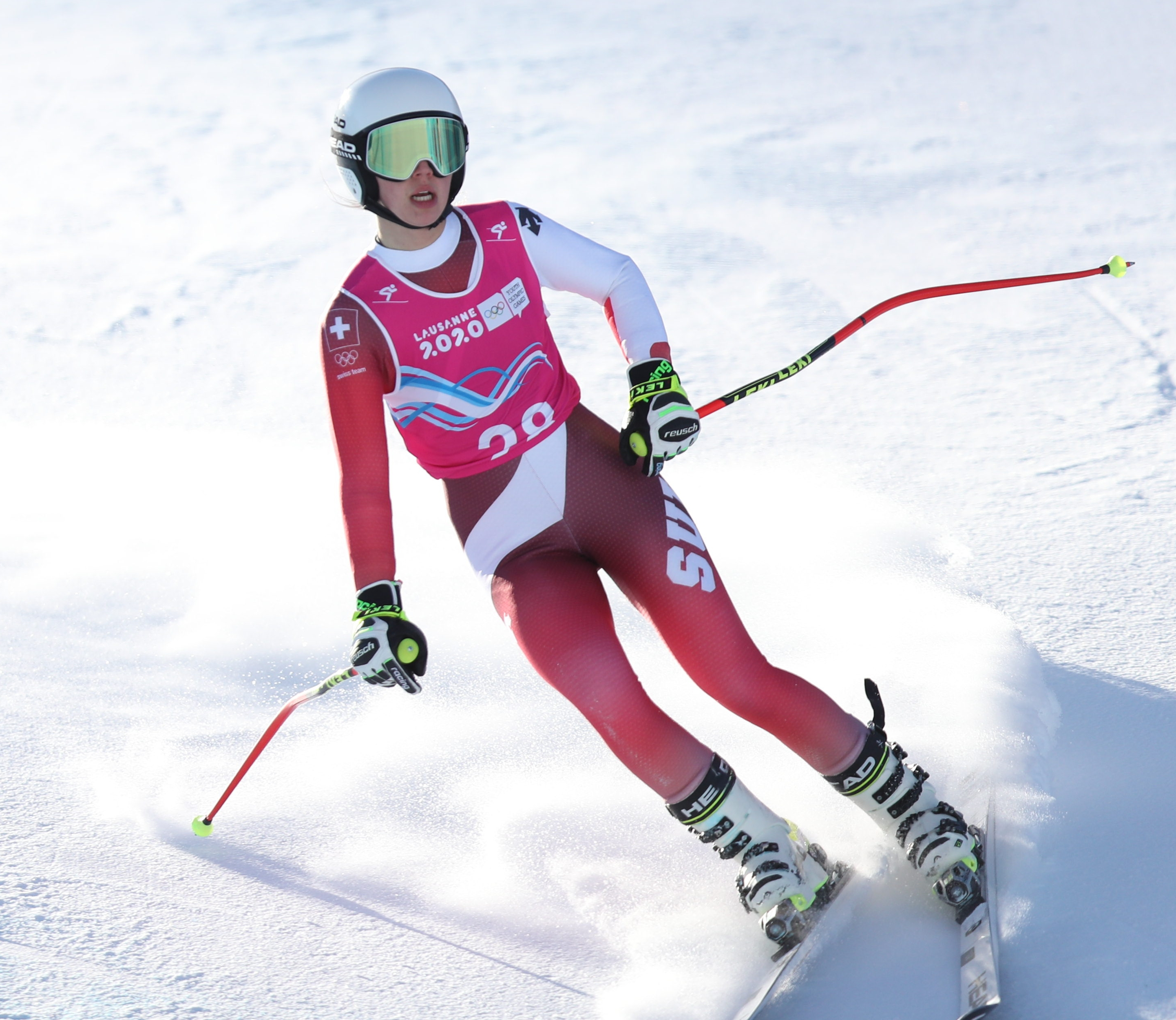 Women's Super G at the 2020 Winter Youth Olympics in Lausanne